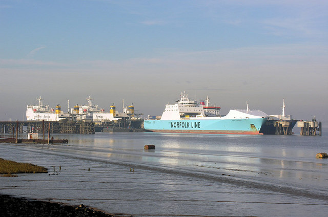 Humber Sea Terminal, Killingholme. The busy four-berth complex for ro-ro services mainly to Zeebrugge and Rotterdam, built adjacent to the site of a former oil jetty.